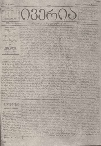 Newspaper "Iveria", 1889 Georgia Pre-1921 image, unknown author, very old image paken in 1889 in Tiflis